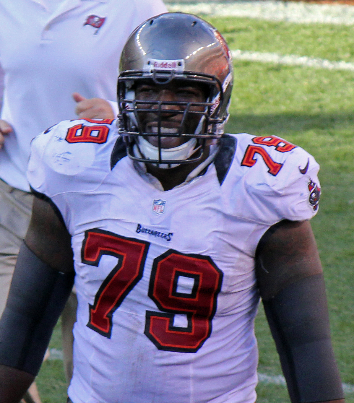 Jamon Meredith, a player on the National Football League.